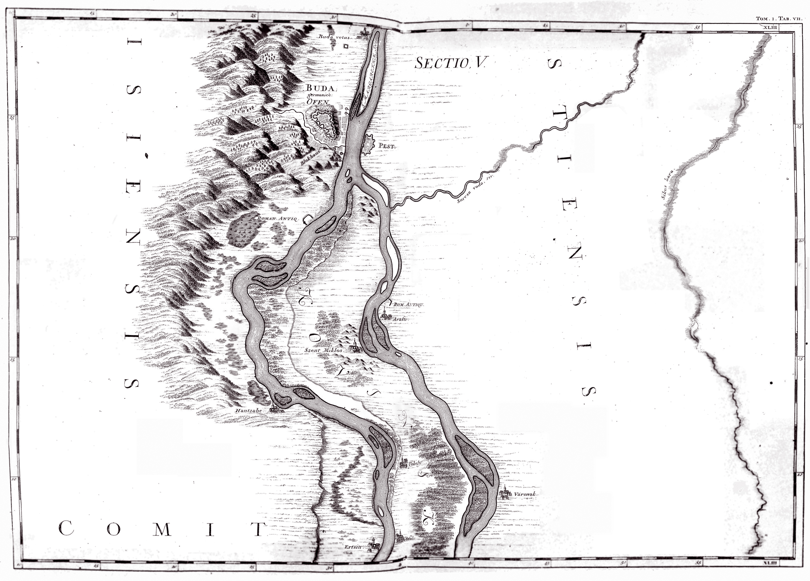 Drawing of the Buda and Pest and the northern part of Csepel Island. Published in the 1726 work Danubius Pannonico-Mysicus by the Italian naturalist and soldier Luigi Ferdinando Marsigli (1658 – 1730).